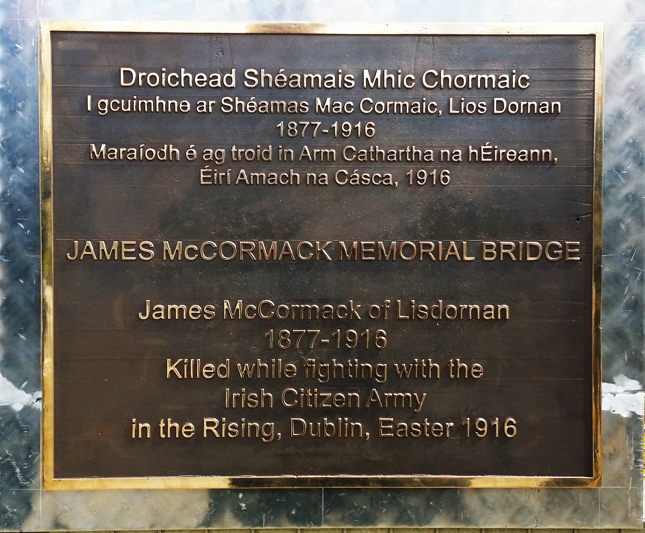 'James McCormack Memorial Bridge', 2016 bridge dedicated to commanding officer James McCormack who served with James Connolly in the 1916 Easter Rebellion/Easter Rising where he was killed.